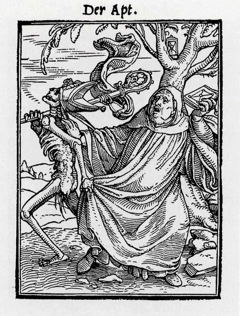 The Abbot. Woodcut from the series known as The Dance of Death, image 6.5 × 4.8 cm, sheet 7.6 × 5.8 cm, Kunstmuseum Basel. This is one of a celebrated series of small woodcuts that Holbein designed on the theme of Death. In the words of Christian Rümelin (Müller et al, p. 471): "Death is depicted in several guises in these illustrations, ranging from the murderous agent (of the monk, merchant, chandler, rich man, knight, earl and nobleman) to the warning commentator (of the pope, emperor, cardinal, judge, alderman, lawyer, and preacher)". Members of society are mostly portrayed in a situation designed to criticise a specific type of behaviour "such as the corruption of the judge, the vanity of the canon, the acquisitiveness of the rich man and the merchant". The series adapts the tradition of the medieval Danse Macabre (Dance of Death) as the basis for a new and original sequence. It also relates to the imagery of French illuminated Books of Hours and poetical traditions. "The scenes are the customary illustrations in which Death appears in the form of a skeleton," notes art historian Stephanie Buck, "interrupting life in various ways. What makes them particularly interesting are the varying reactions of the doomed figures, whom Holbein depicts with vivid gestures and facial expressions" (Stephanie Buck, Hans Holbein, Cologne: Könemann, 1999, ISBN 3829025831, p. 44).